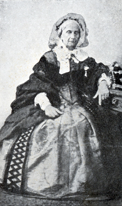 Domitila de Castro, Marchioness of Santos (1797-1867)